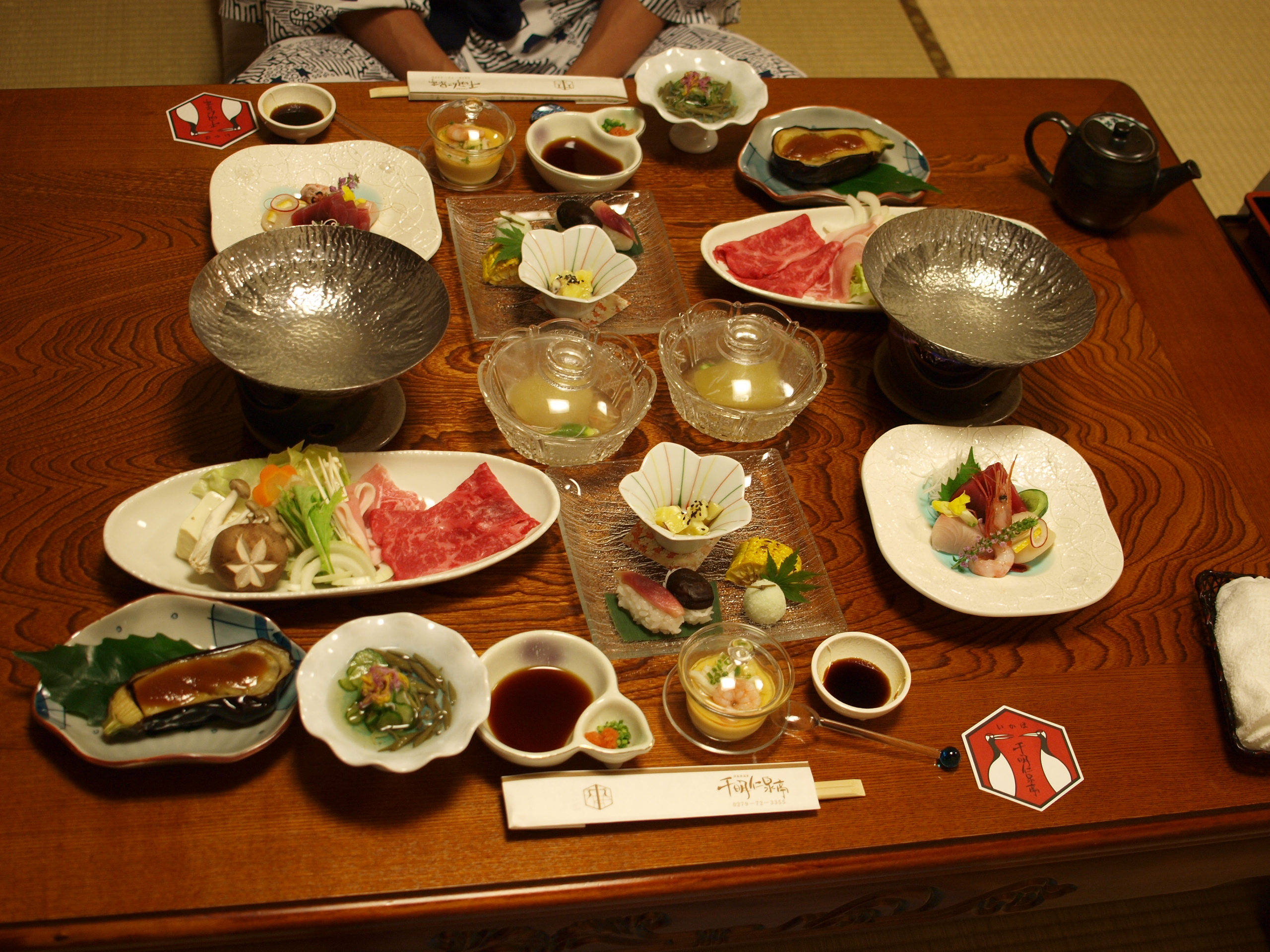 Dinner served at a ryokan at Ikaho Onsen, Japan.